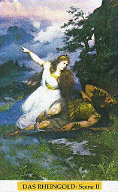 Ferdinand Leeke 1859-1925: Rheingold